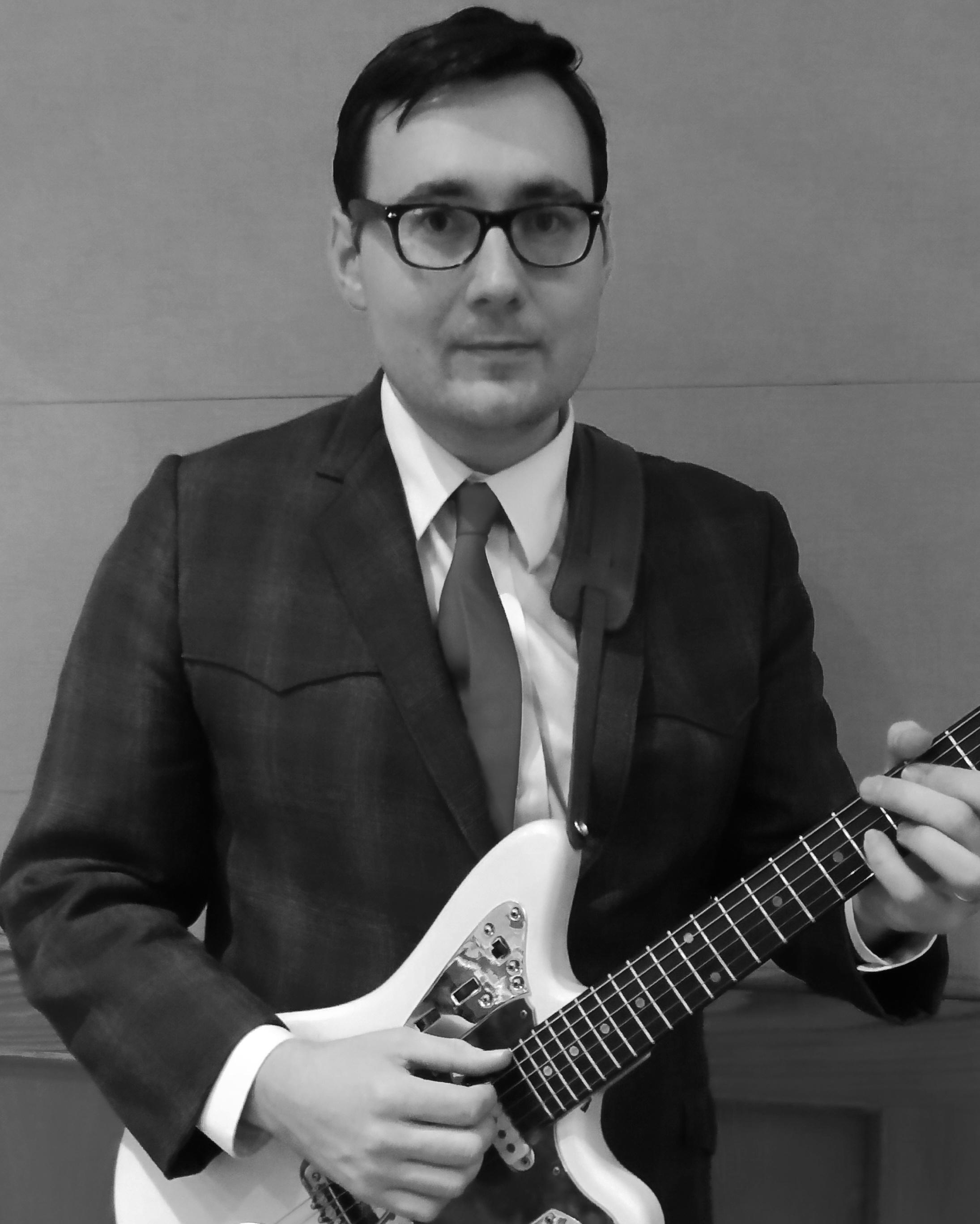 Photograph of Chris Scruggs in Chicago on November 15, 2013.